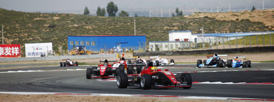 ART 1,2,3